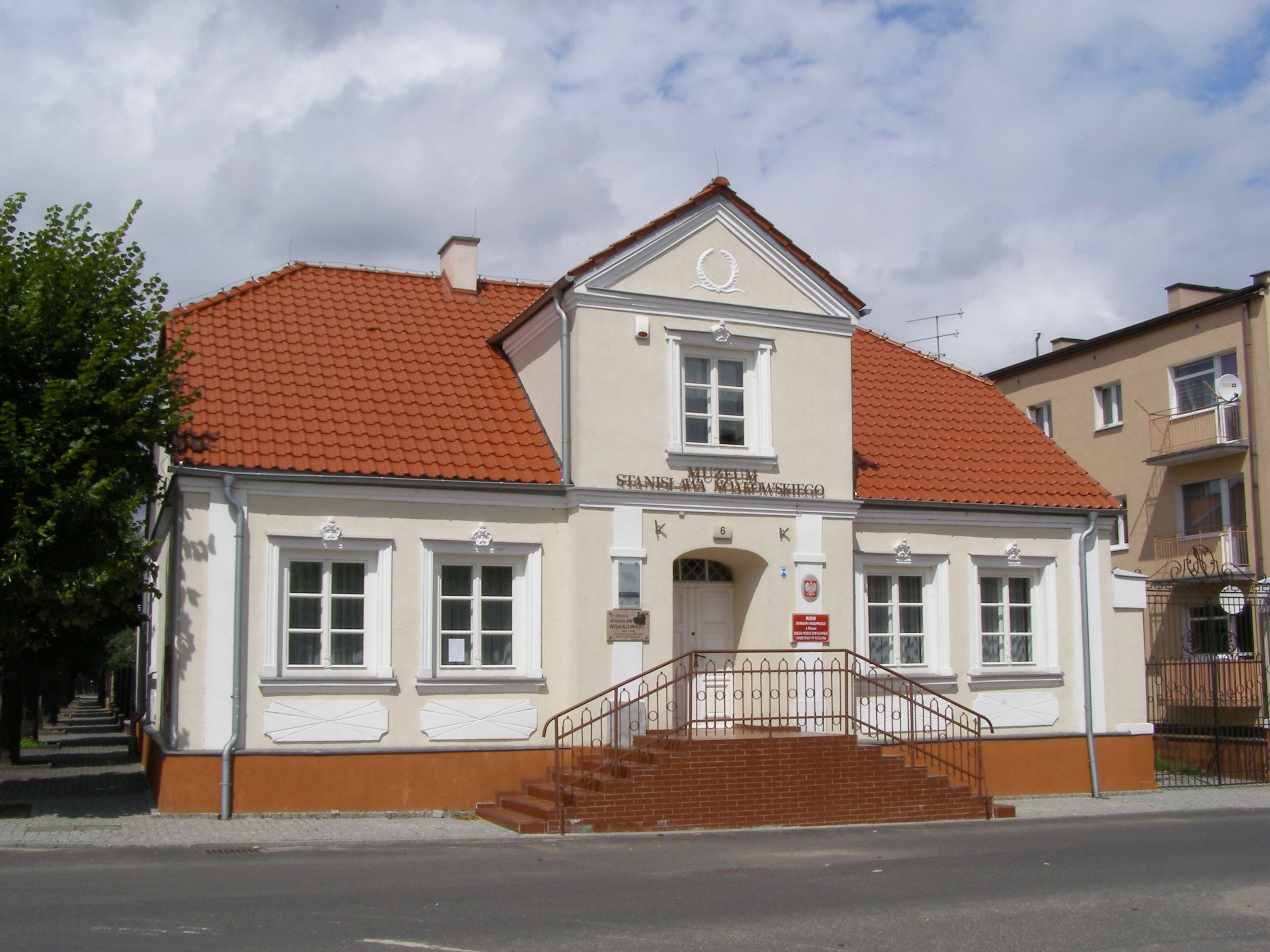 Nieszawa - museum of Stanisław Noakowski